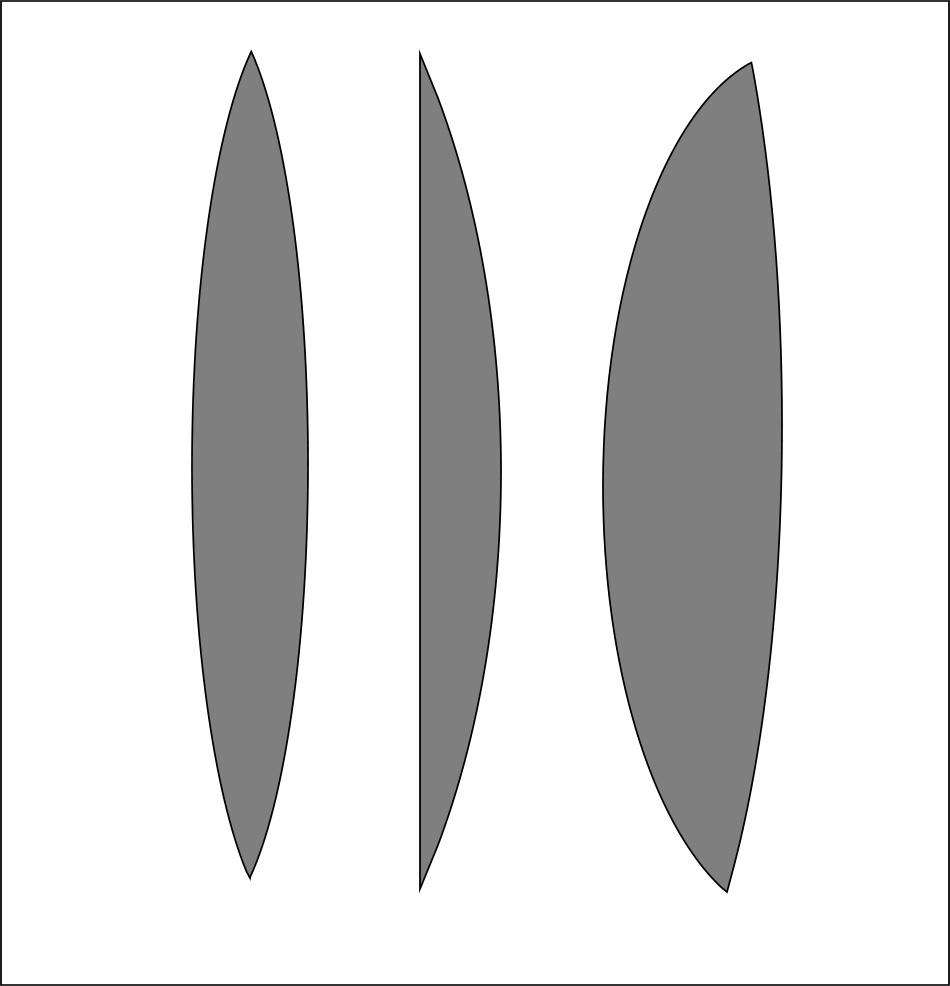 Examples of convex lenses